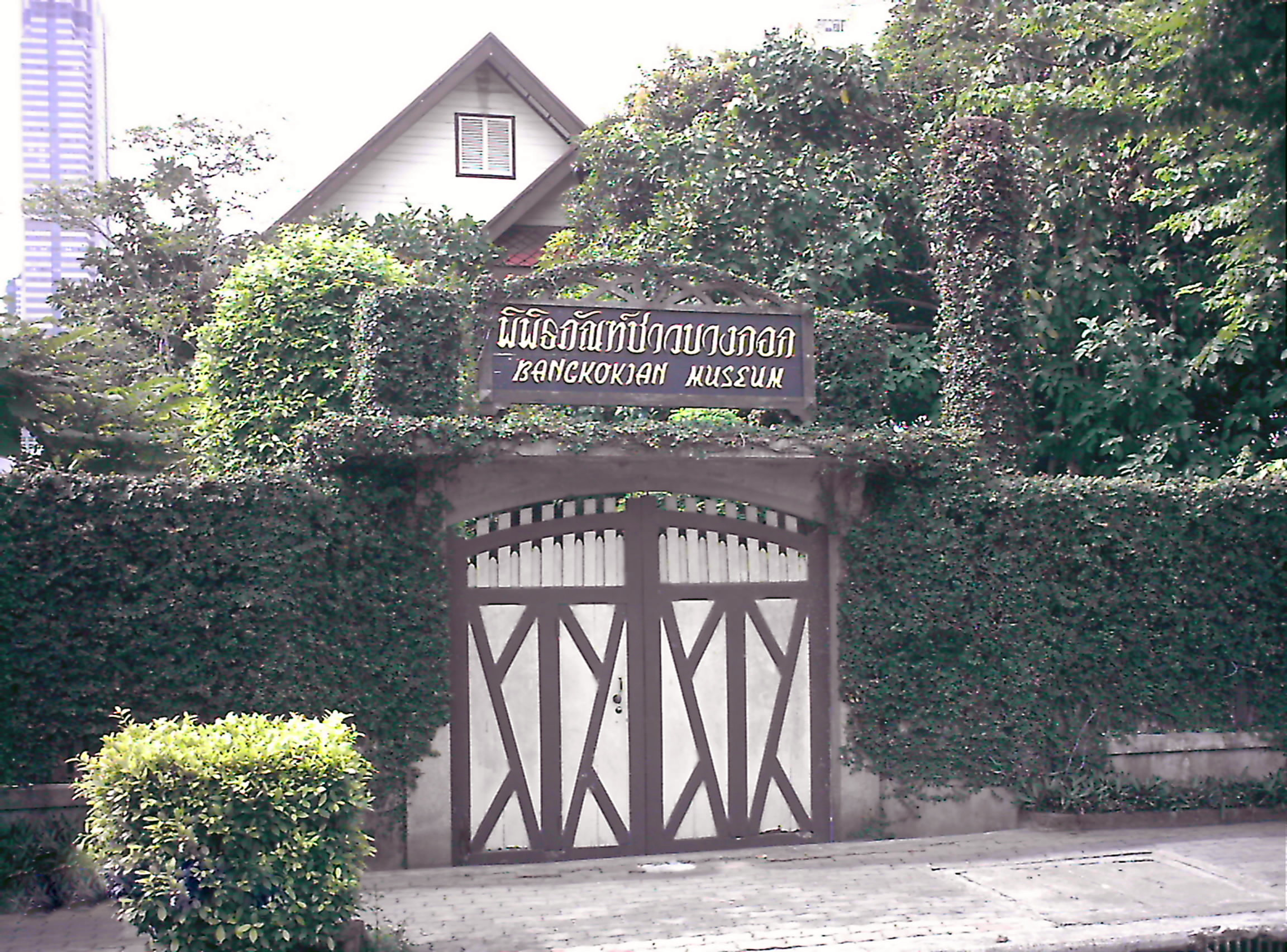 Bangkokian Museum, 273, Soi 43, Charoen Krung Road, Bangkok, Thailand 中文（香港）: 曼谷人博物館，泰國的首都曼谷之挽叻縣的四丕耶區之石龍軍路的石龍軍四十三街273號